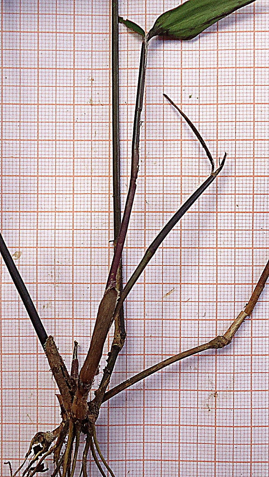 Ichnanthus nemoralis (Schrad. ex Schult.) Hitchc. & Chase